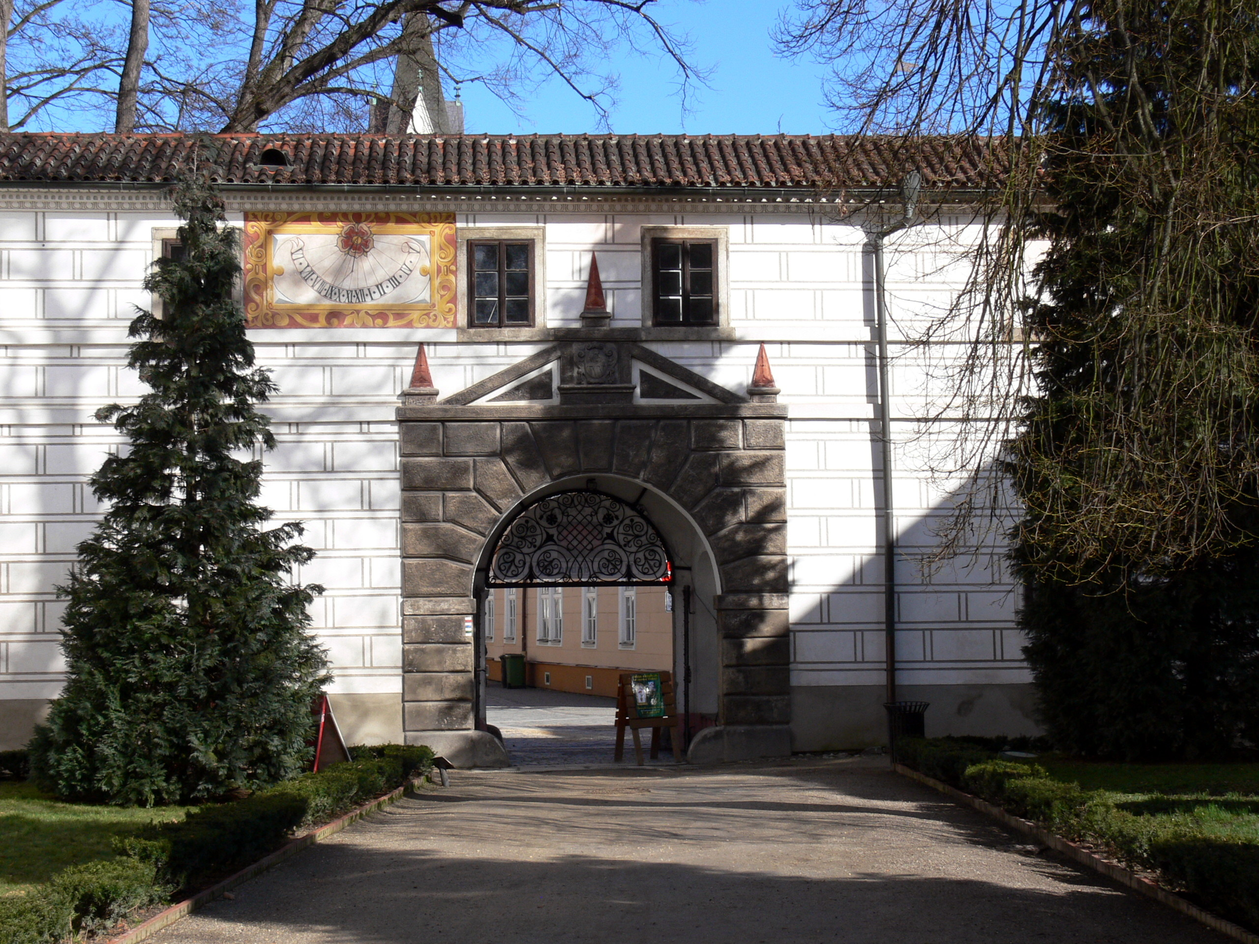 Třeboň castle. Gate to the outer courtyard.